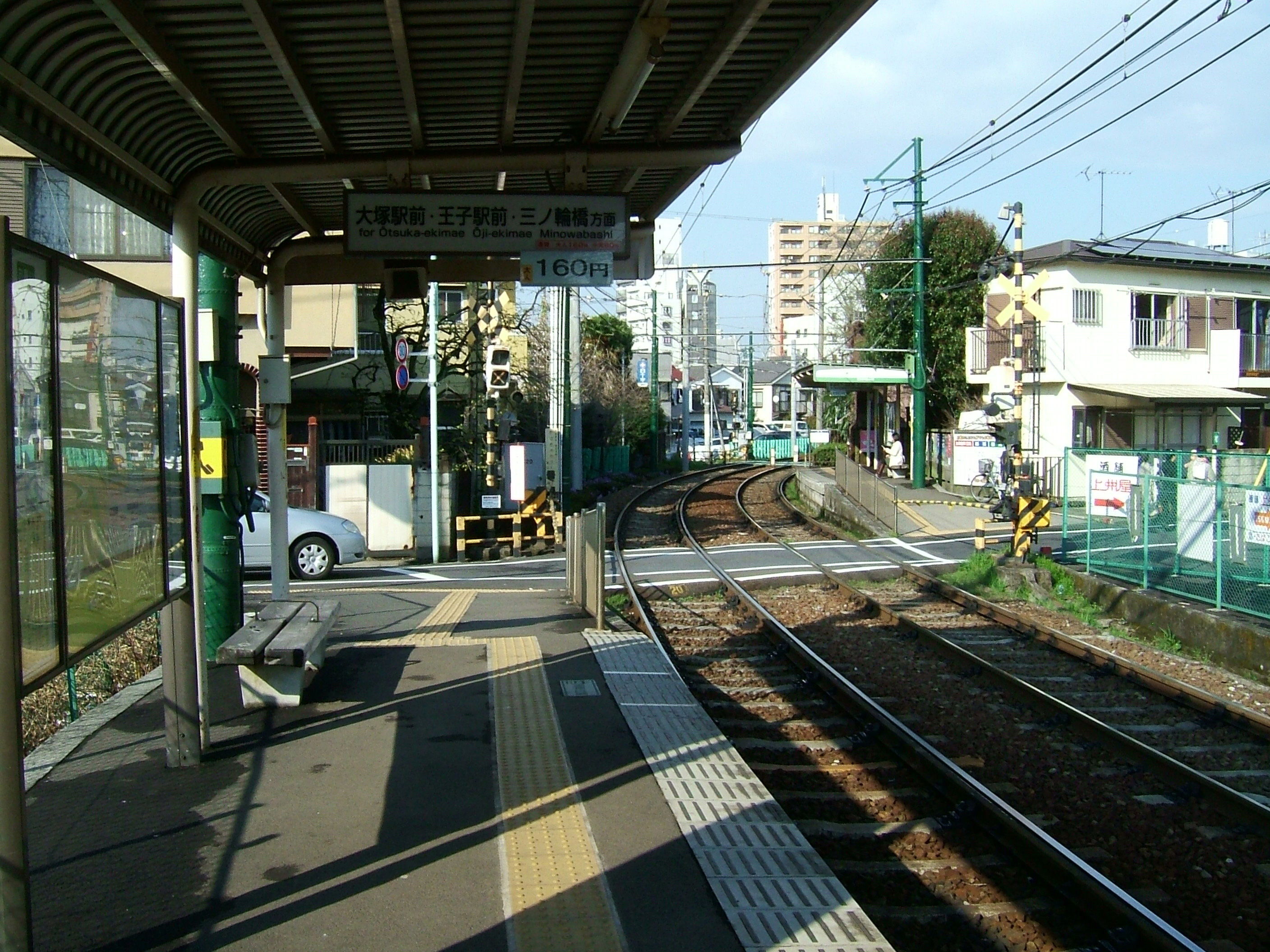 The platforms at Toden-Zōshigaya Station on the Toden Arakawa Line in Toshima city, Tokyo, Japan